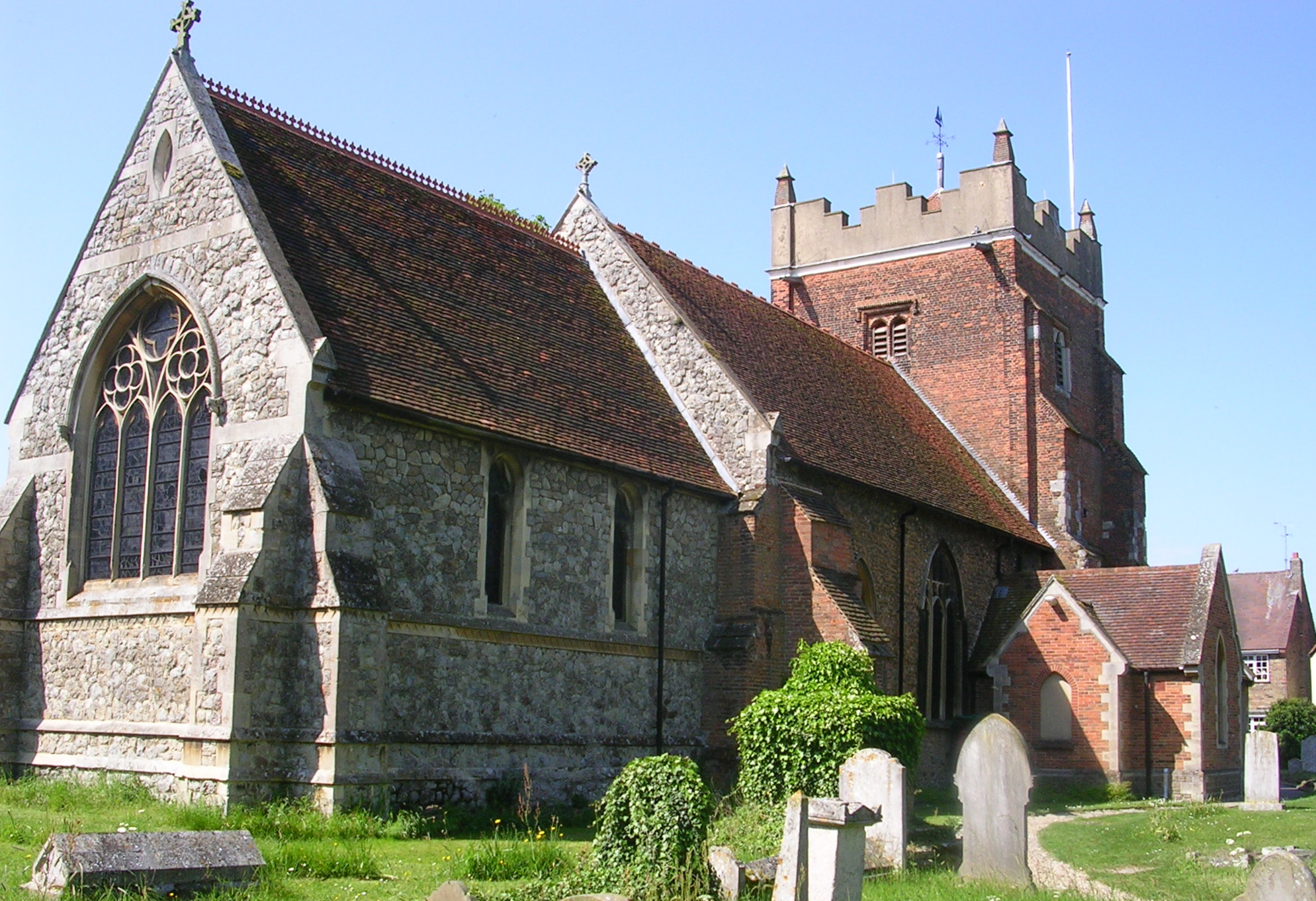 St Mary the Virgin parish church, Tollesbury, Essex, seen from the northeast